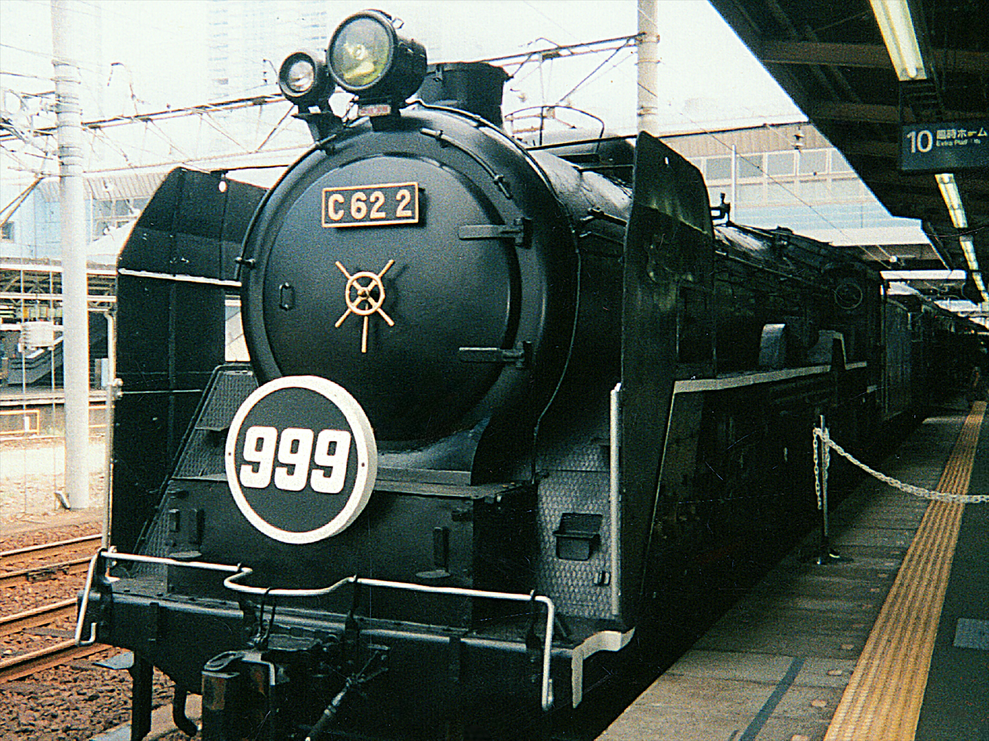 C62 2 steam locomotive at the Dream Train 1999 exhibition in Shinagawa Station